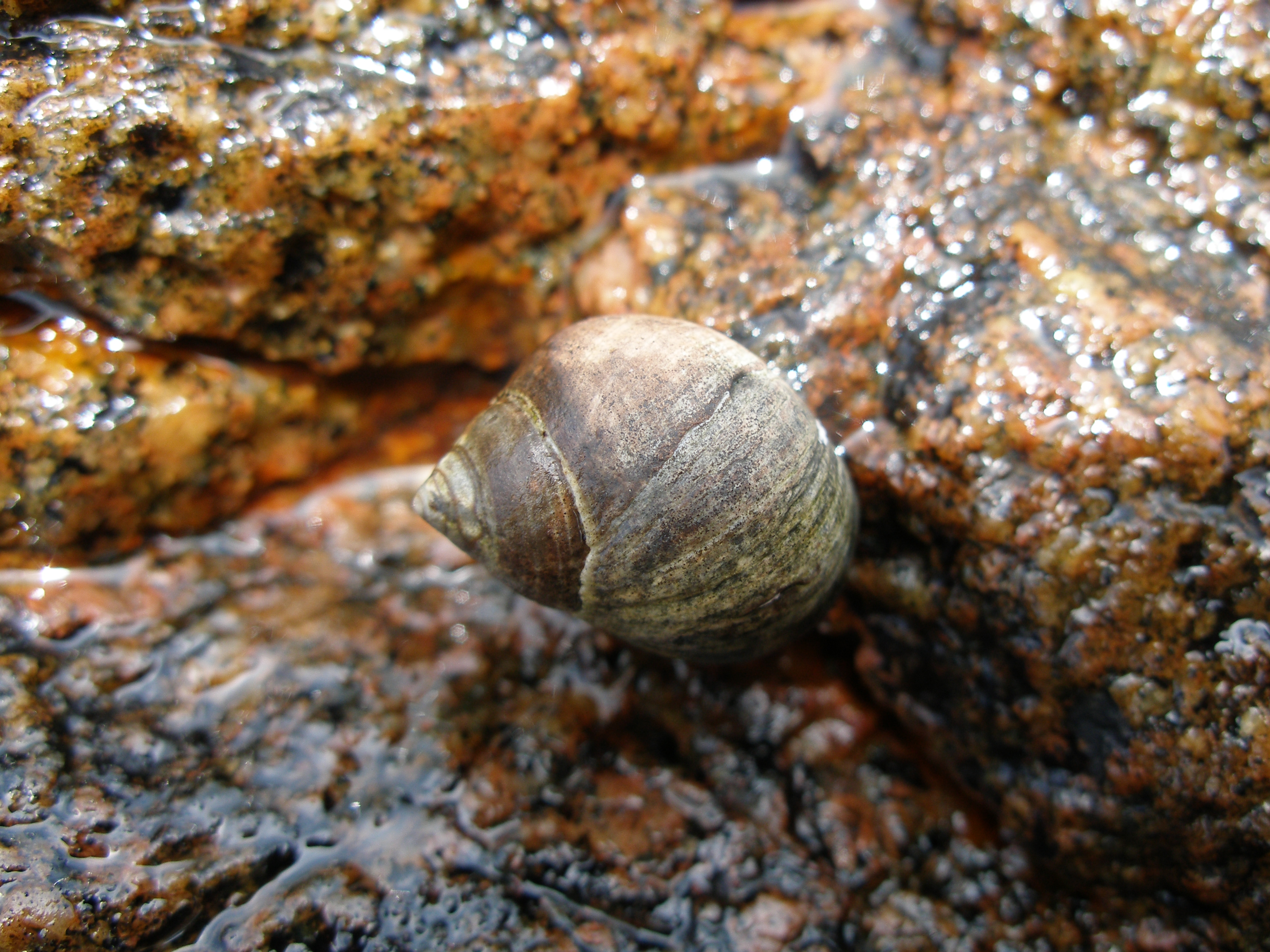 Live sea snail at the coast of Veddö naturreservat in Sweden, June 2005.